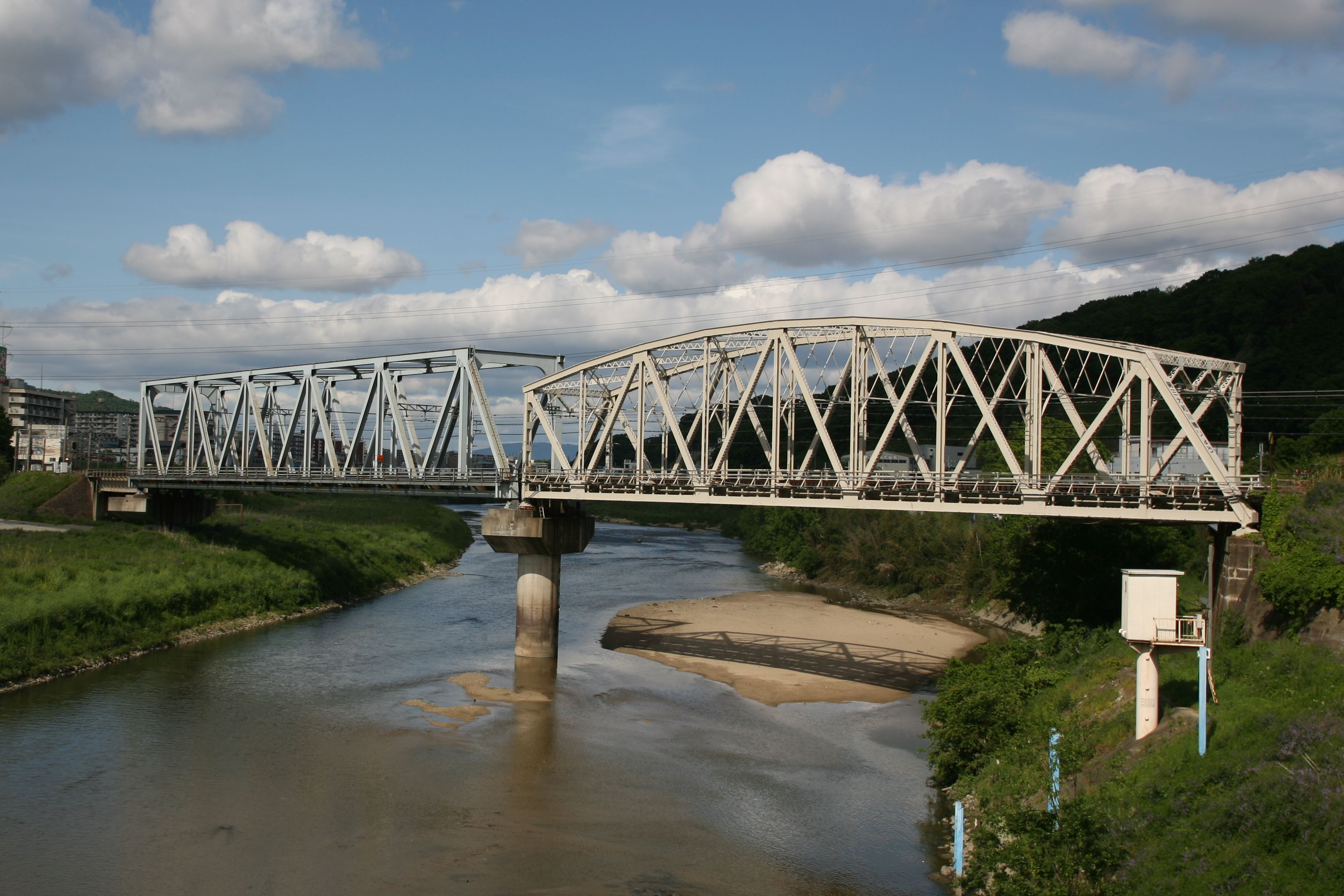 3rd Yamatogawa Bridge of kansai Line of Nara Pref.,Japan. This bridge has two type of runcate truss.